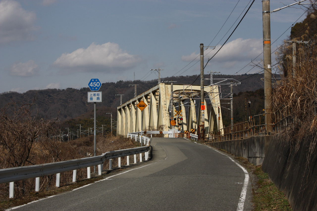 Hyogo prefectural road No.450